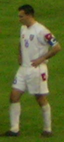 Photo of Nenad Brnović as captain of Serbia-Montenegro from a friendly against Italy in 2005.